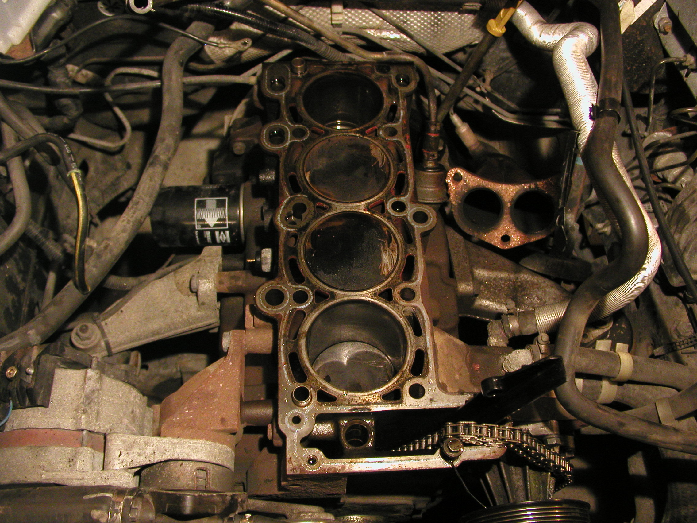 The engine block of the Ford I4 DOHC engine (with the cylinder head removed).